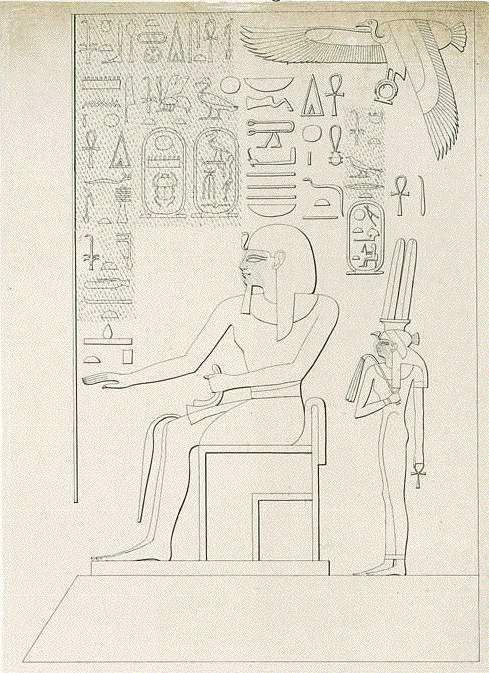 Merytre Hatshepsut depicted in the temple of Thutmosis III in Medinet Habu.